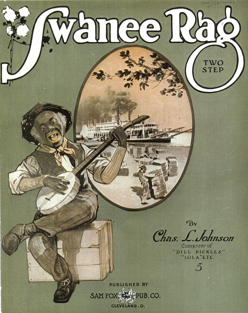 Swanee Rag, 1912